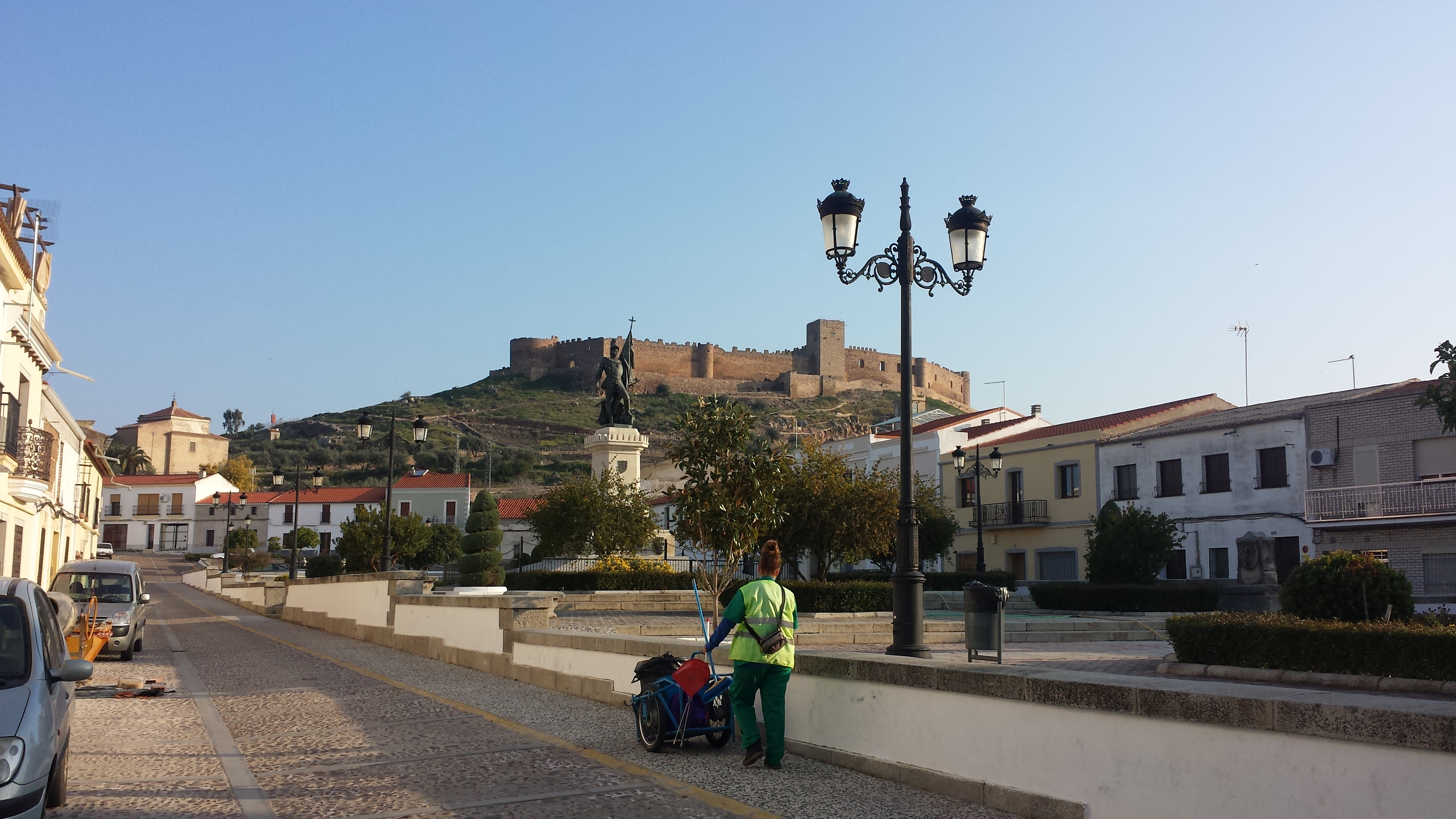 View over the statue of Hernán Cortés and the Castle, Medellín (Spain)